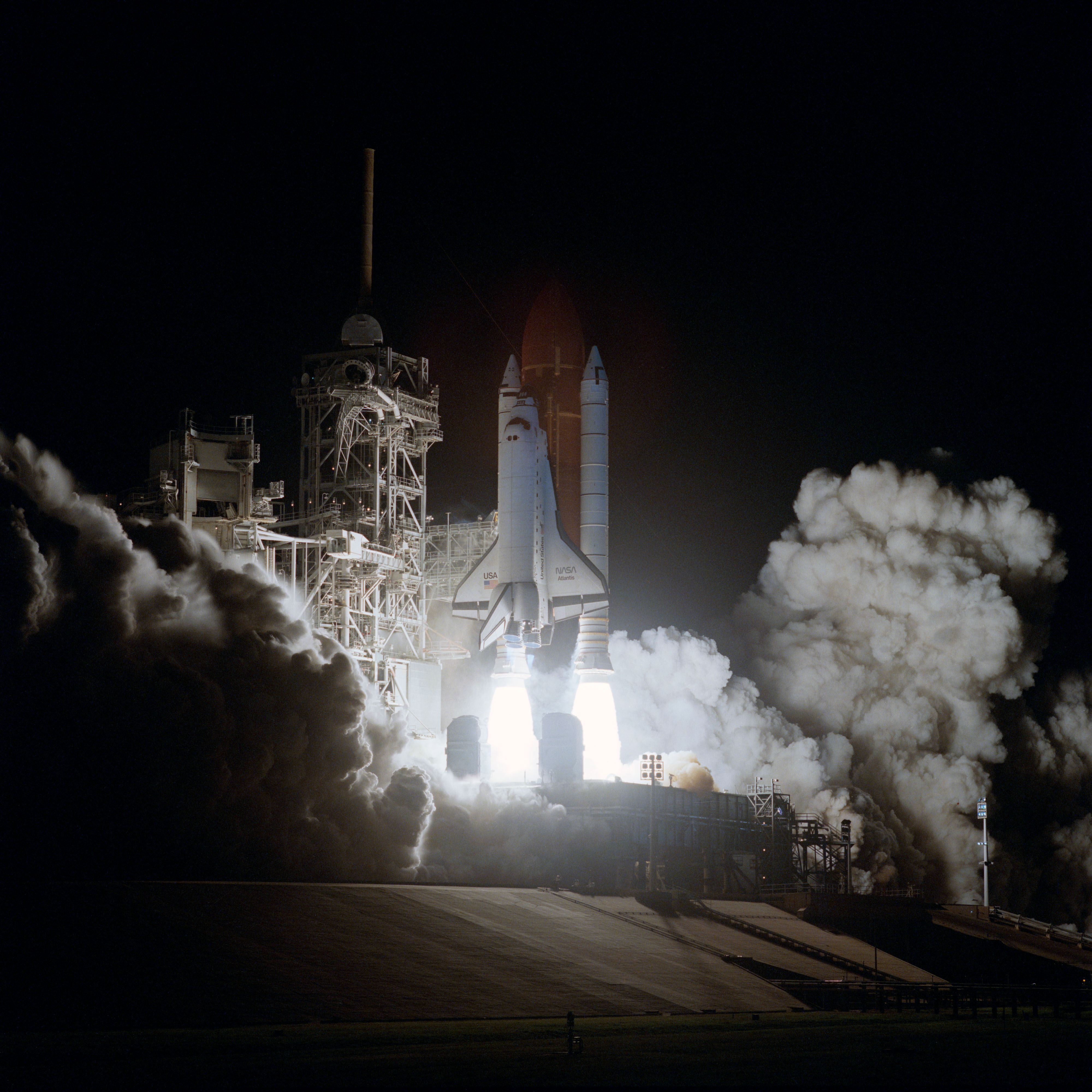 STS-38 Atlantis, Orbiter Vehicle (OV) 104, lifts off from Kennedy Space Center (KSC) Launch Complex Pad at 6:46:15:0639 pm (Eastern Standard Time (EST)). As OV-104, atop the external tank (ET) and flanked by two solid rocket boosters (SRBs), rises above the mobile launcher platform, exhaust smoke fills the area surrounding the launch pad. SRB and space shuttle main engine (SSME) firings glow against the night darkness and light up the fixed service structure (FSS) and retracted rotating service structure (RSS). STS-38 is a Department of Defense (DOD) devoted mission.